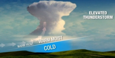 Elevated cumulonimbus